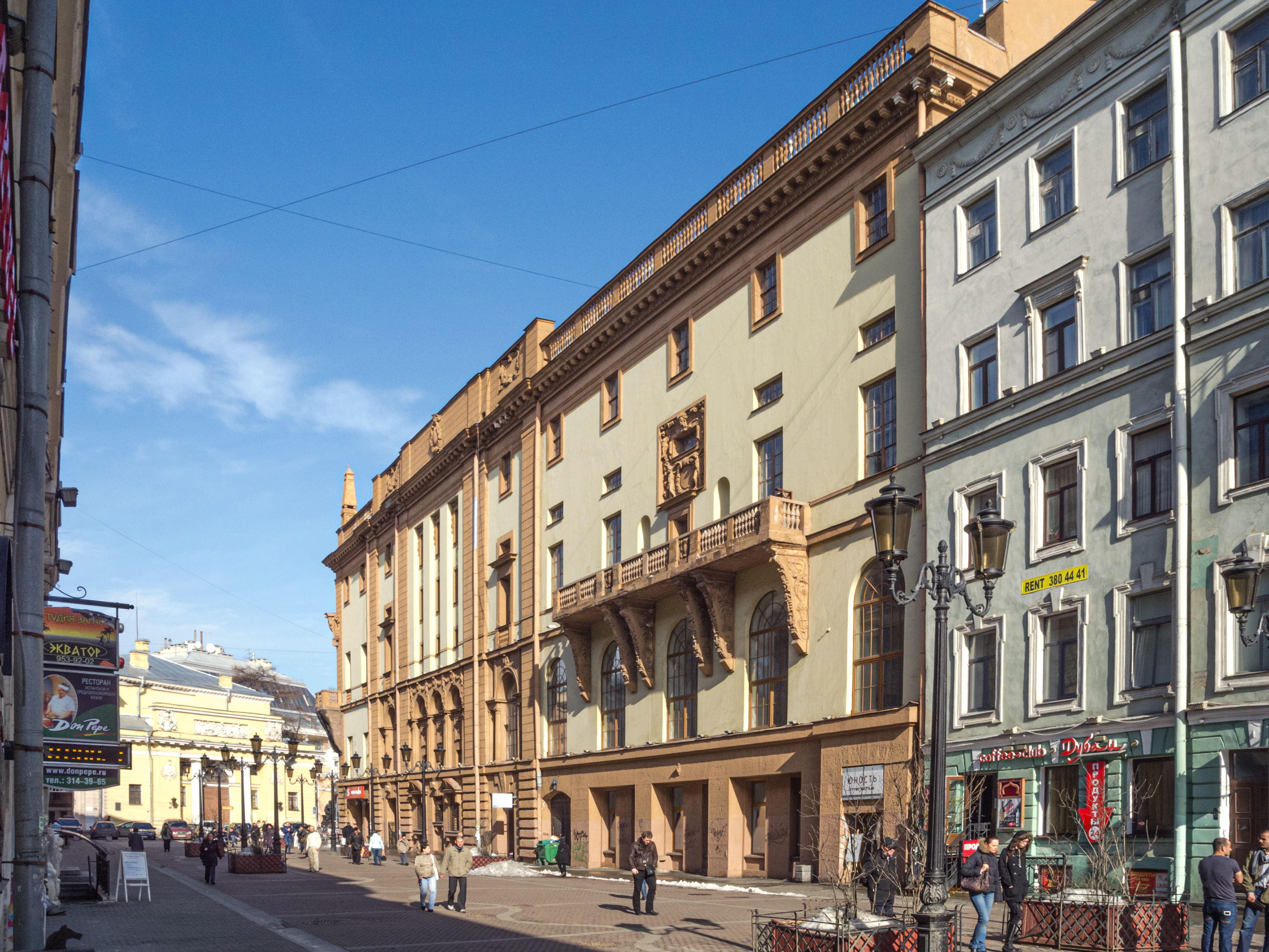 "Leningradskiy Dom Radio", Saint Petesburg, 2011